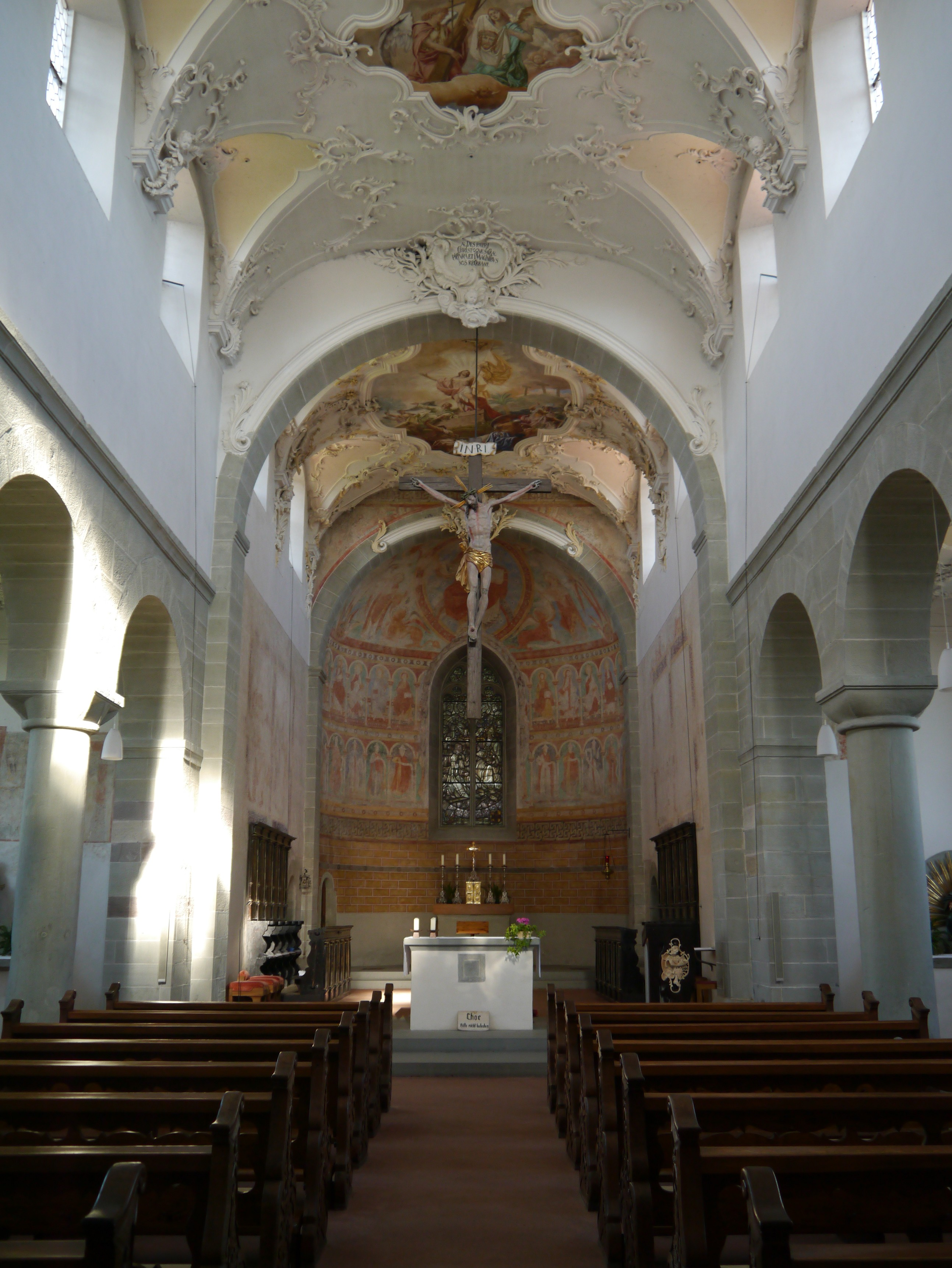 Nave of the Monastery Church of Sts. Peter & Paul, Reichenau